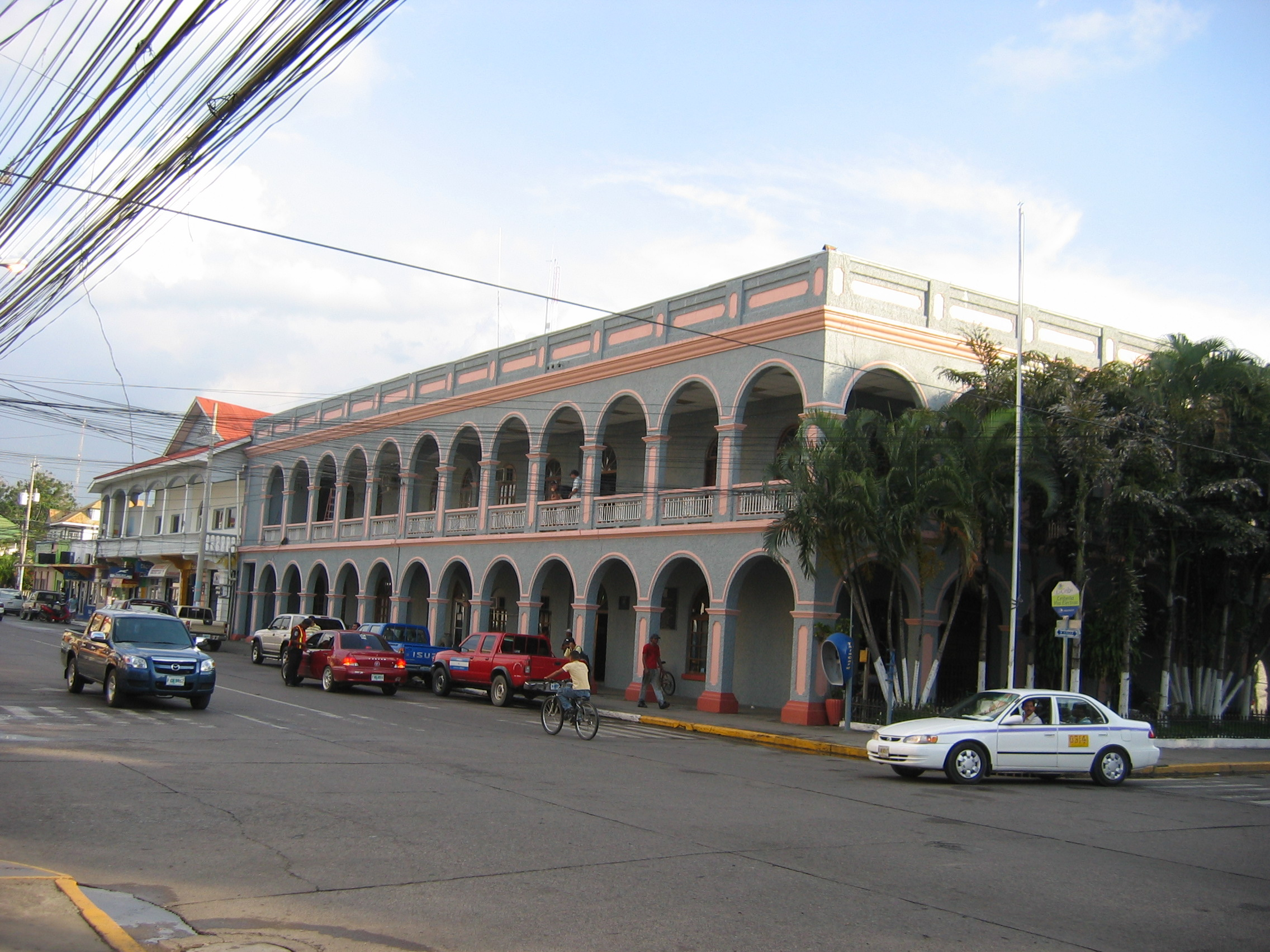 La Ceiba City Hall along the main thoroughfare of the City